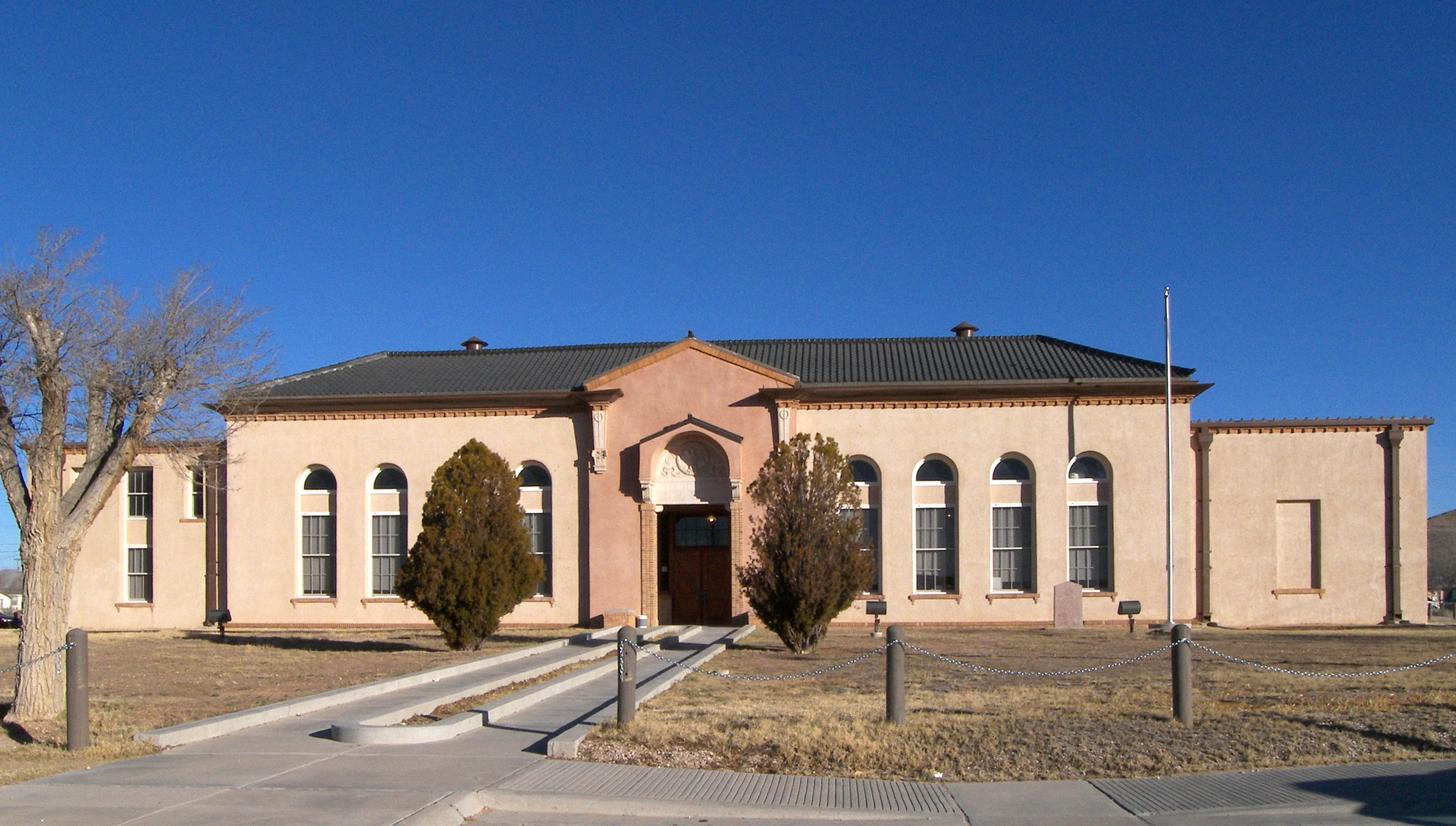 The Hudspeth County, Texas courthouse in Sierra Blanca, Texas, United States. It was listed on the National Register of Historic Places on May 21, 1975.